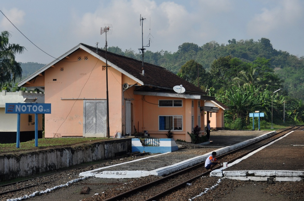 Notog train station in Central Java